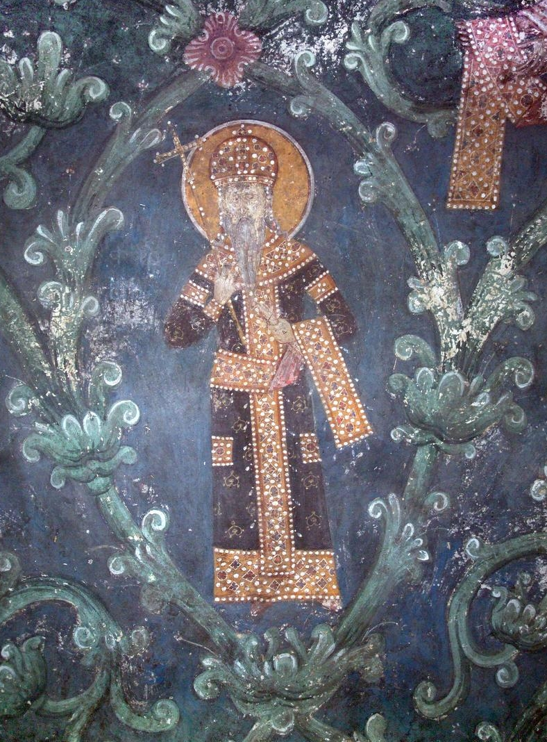 The fresco of king Stefan Milutin (from Loza Nemanjića composition), Gračanica monastery, Serbia